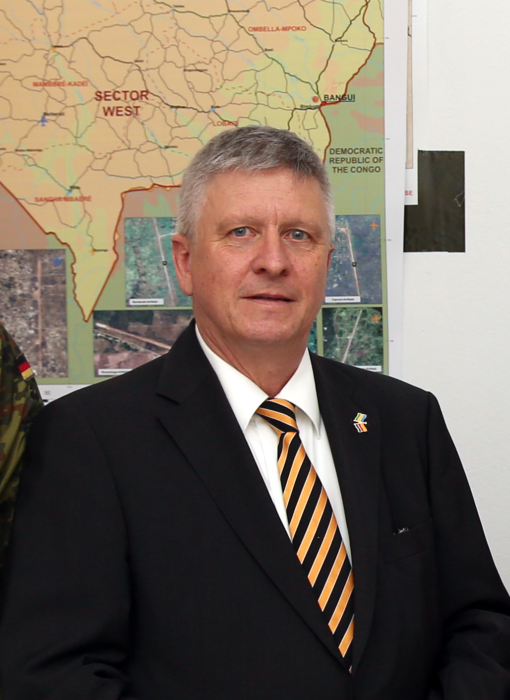 From left to right, German Army 1st Lt. Clemens Von Heimann, German Ambassador to Gabon Stefan Graf, Premier Counselor Anne-Kirsten Wohlleben, Maj. Thomas Strohmeyer and German army Staff Sgt. Denny Reck pose for a photo during the Ambassador’s visit to the German Geospatial Team during the Central Accord Exercise 2016, June 22, 2016. U.S. Army Africa's exercise Central Accord 2016 is an annual, combined, joint military exercise that brings together partner nations to practice and demonstrate proficiency in conducting peacekeeping operations. U.S. Army photo by Sgt Henrique Luiz de Holleben.